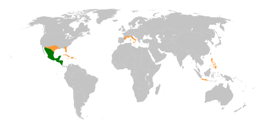 Distribution range of the twoleaf nightshade. Native range is green, introduced and cultivated areas are in orange.